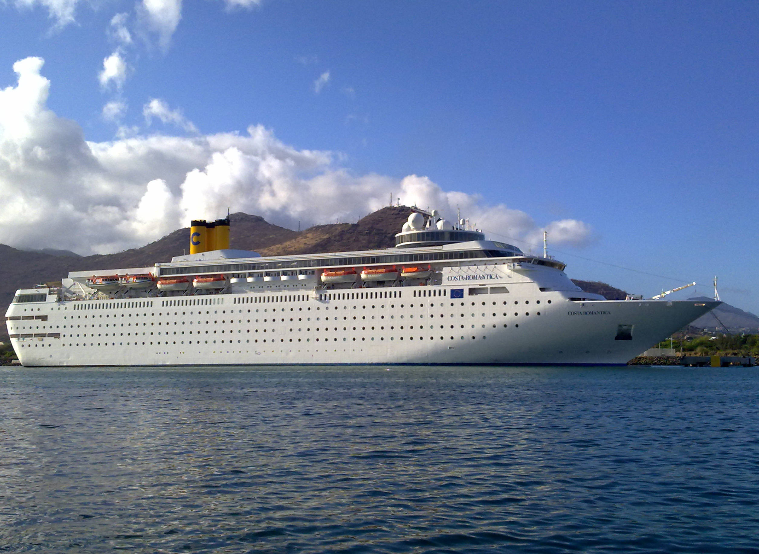 Costa Romantica berthed at Cruise Jetty at Port Louis harbour